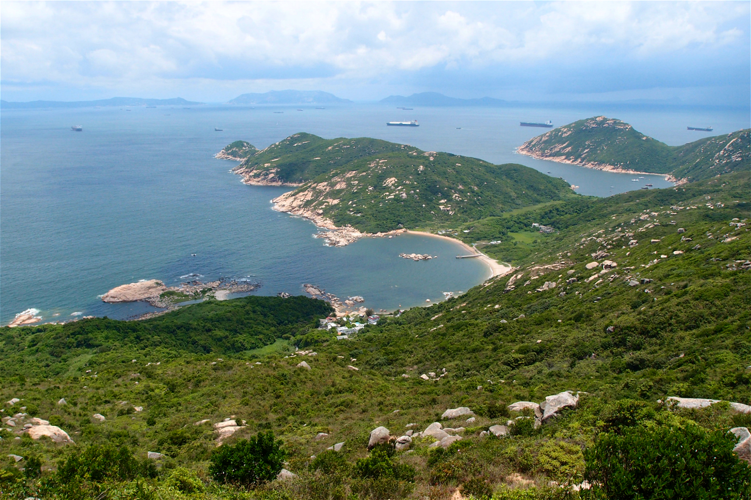 菱角山，面向深灣的圓角和大角